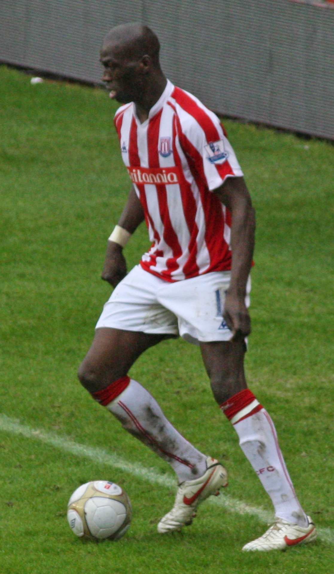 Stoke City FC V Arsenal 36